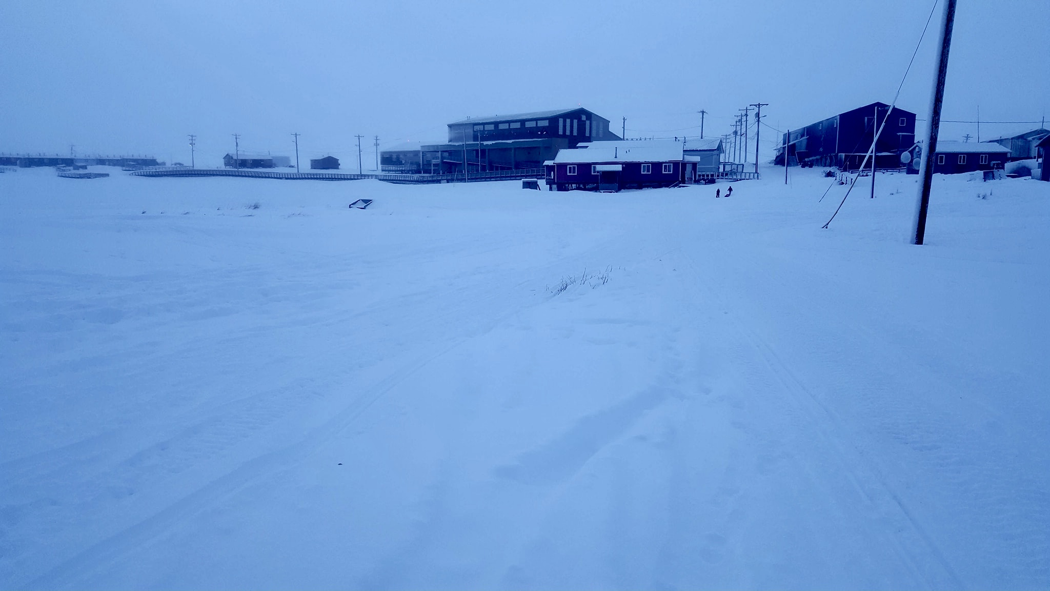 Center of the village of Chefornak, Alaska, visible are the school, the city complex, and the village's only store